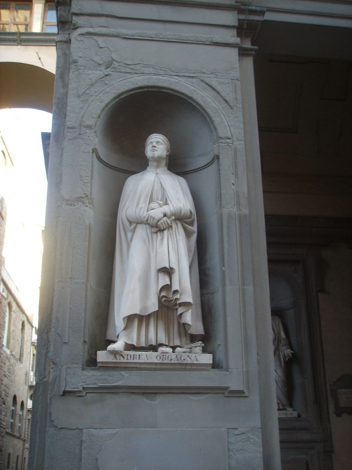 Statues in the Uffizi outside Gallery Famous florentine. See title description